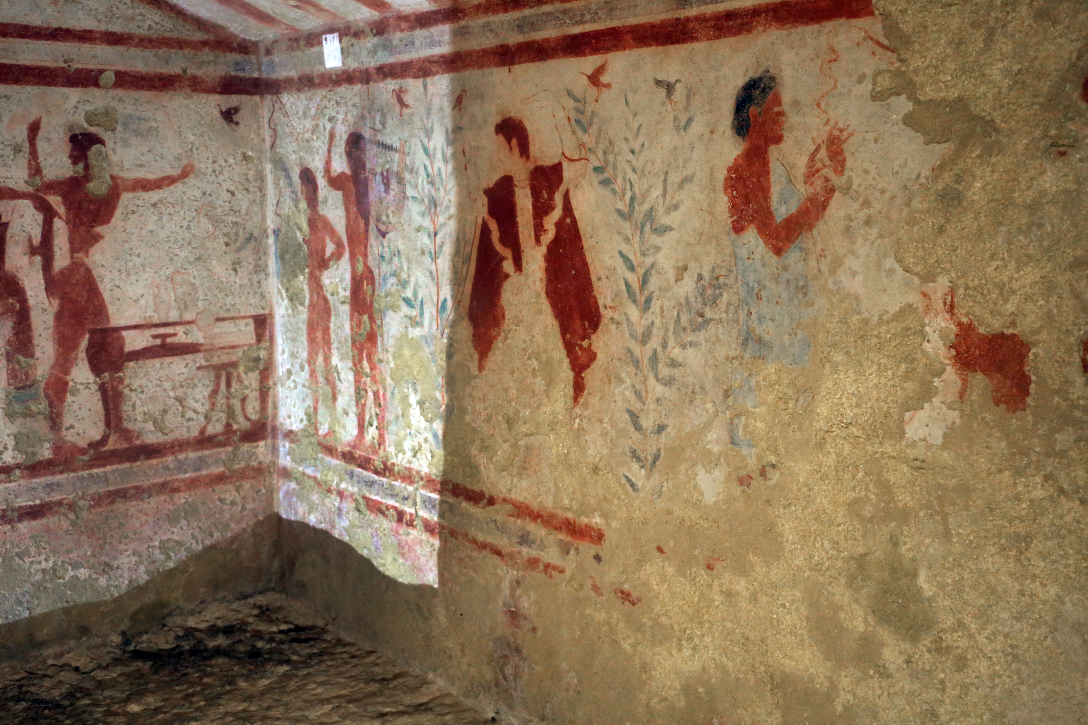 Necropoli dei Monterozzi (Tarquinia)